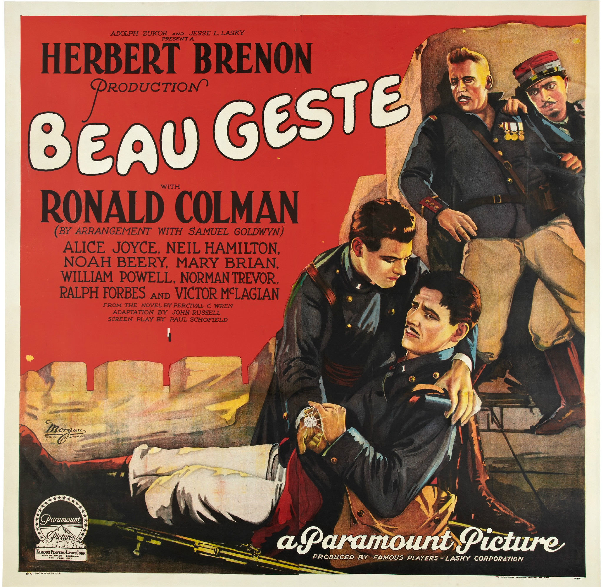 Poster for the American drama film Beau Geste (1926).